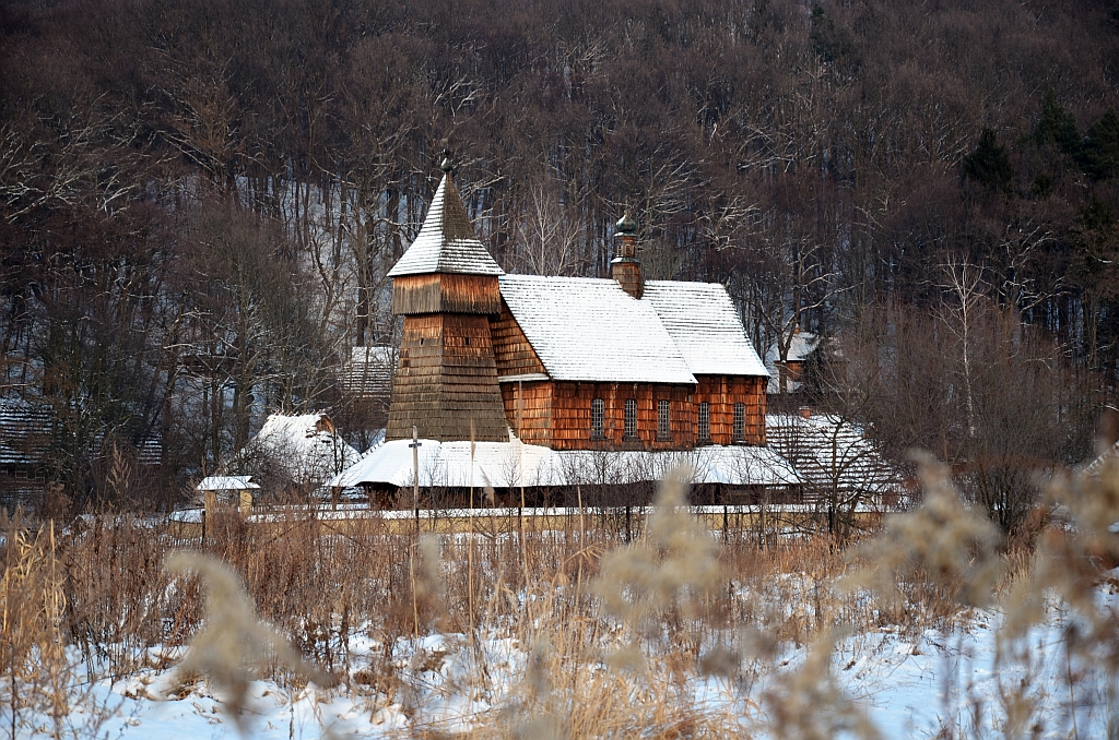 Die ehemalige Dorfkirche von Bączal Dolny, heute im Museum der Volksbauweise in Sanok